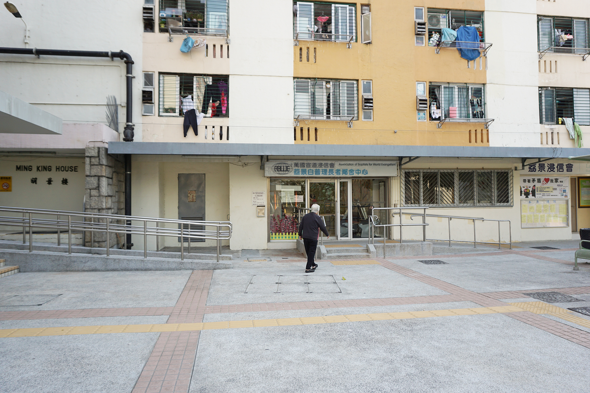 Ming King House in Lai King, Hong Kong.